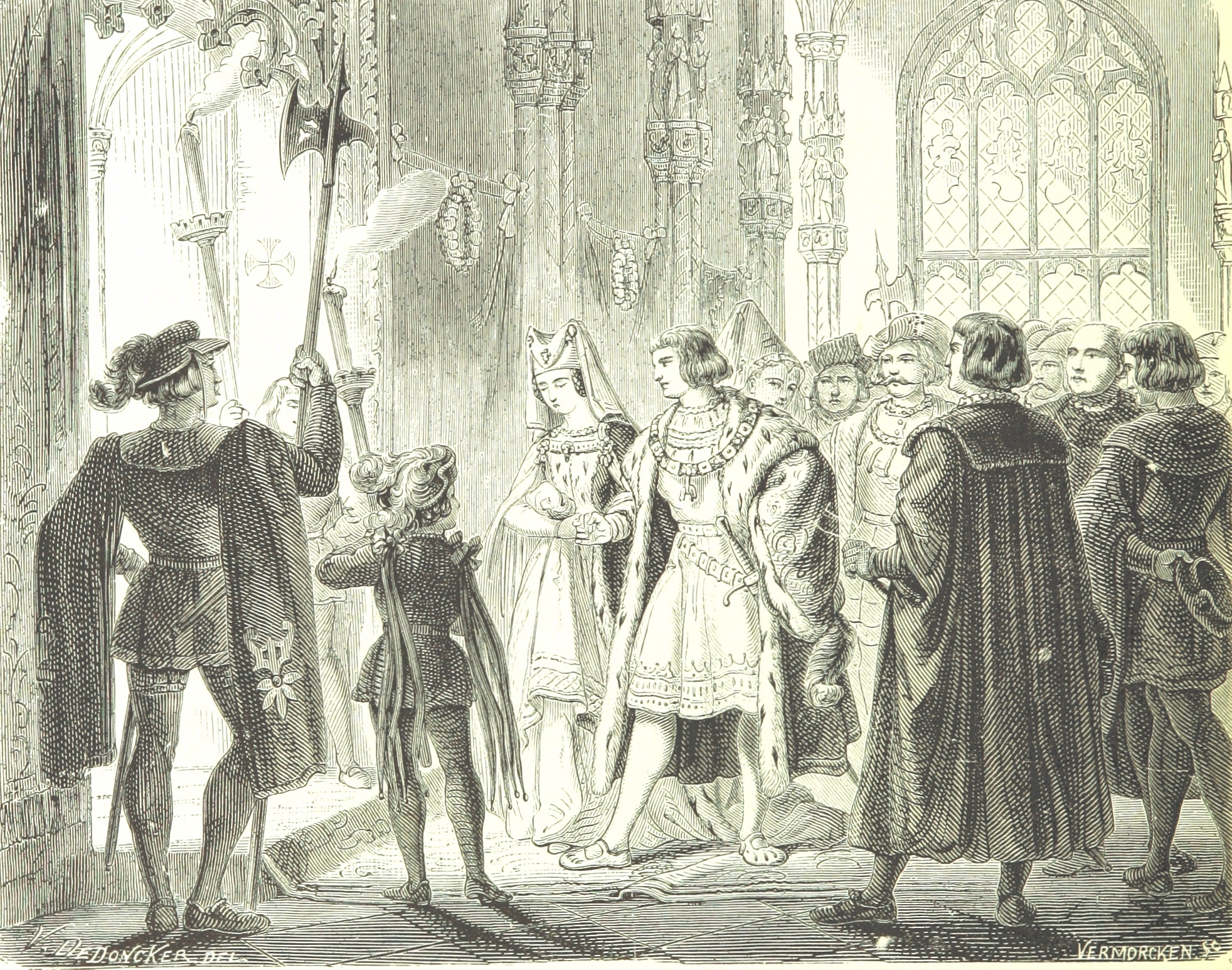 Marriage of Mary of Burgundy with Maximilian of Austria (19 August 1477)